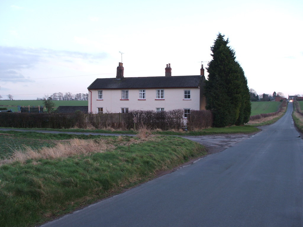 Wetwang railway station (site), Wetwang, East Riding of Yorkshire, England.Opened in 1853 by the Malton & Driffield Railway, this line soon became part of the North Eastern Railway empire. The station closed in 1950 to passengers, and completely in 1958. The track used to cross left to right in front of the building - left for Driffield, right for Malton.